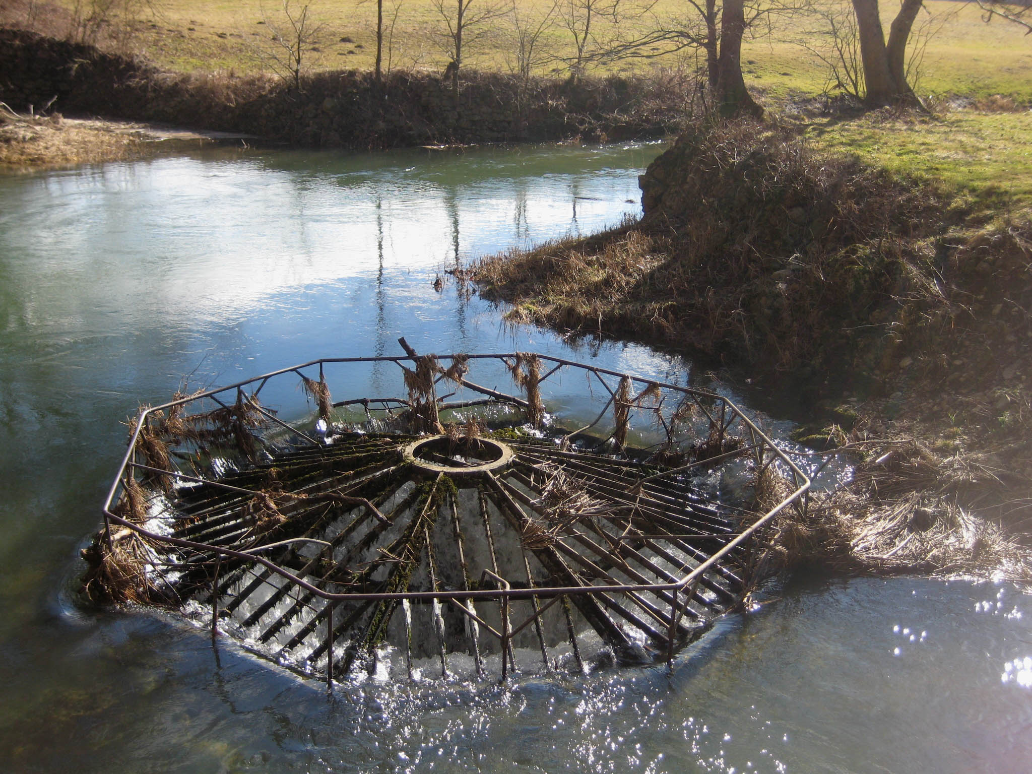 River Unica at Planinsko polje, Slovenia